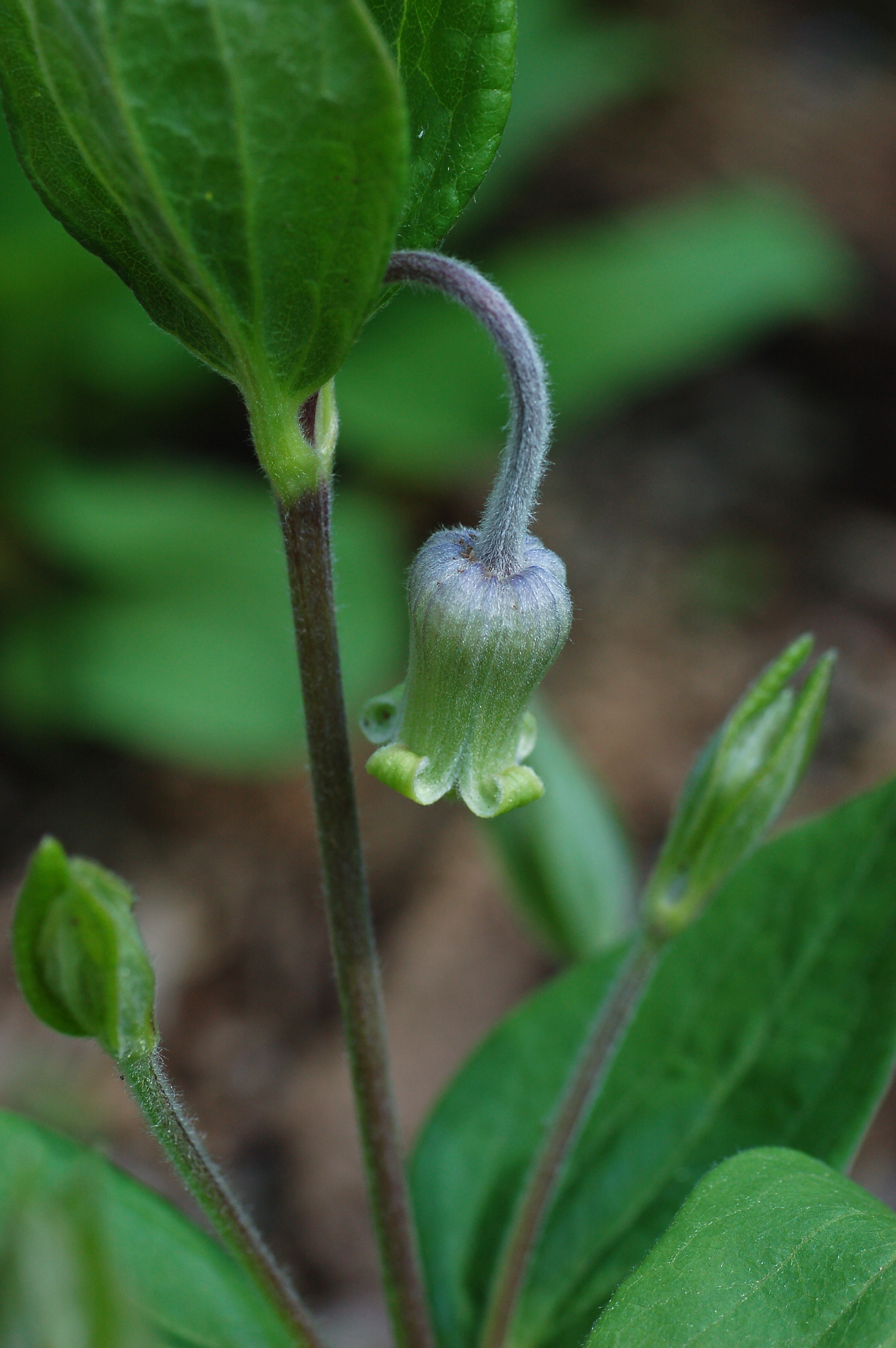 Photograph of a forming flower on the Erect Silky Leather Floweren (Clematis ochroleuca en ). Photo taken at the Mt. Cuba Center where it was identified.